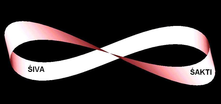 Śiva-Śakti graphic representation using Möbius strip